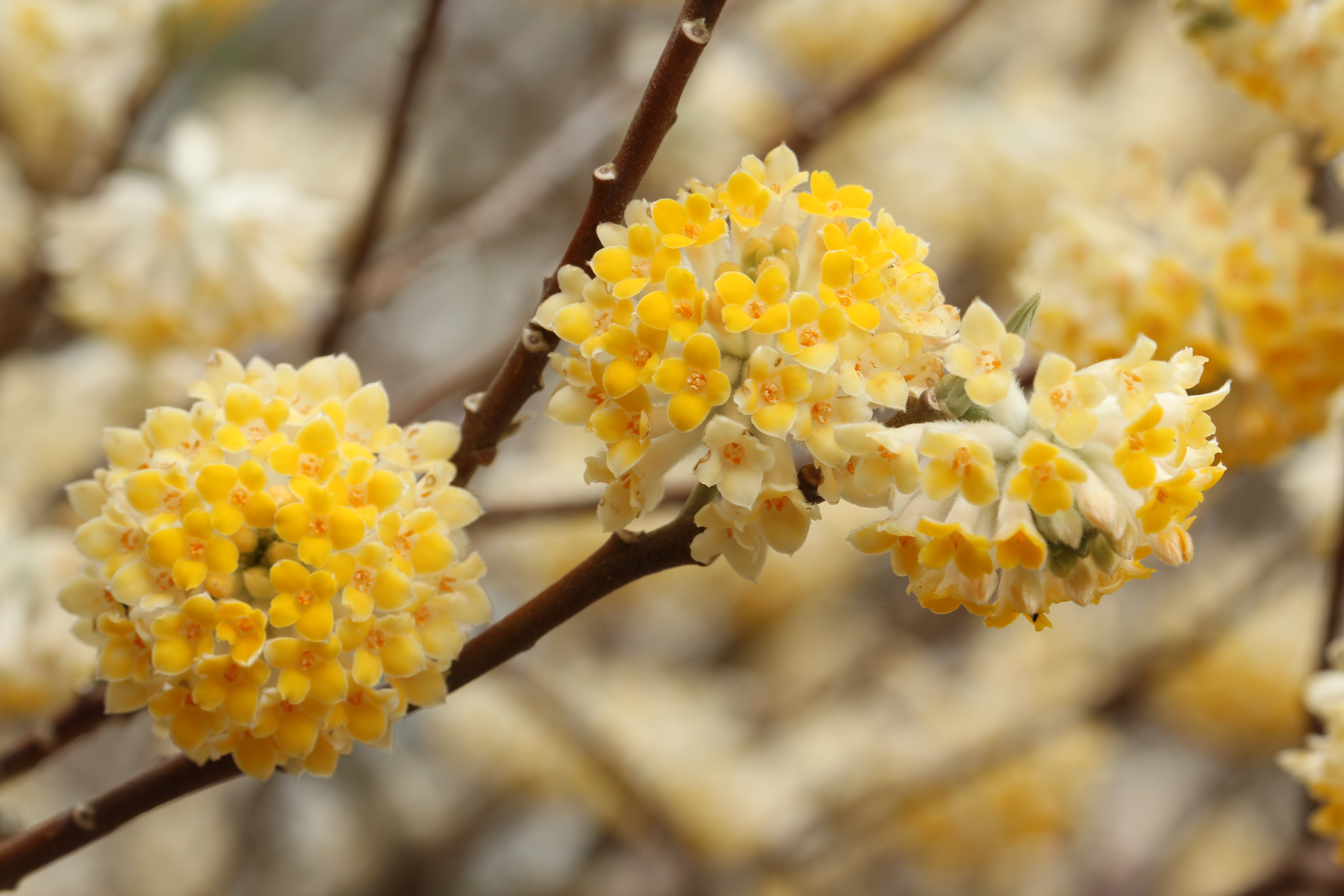 Edgeworthia chrysantha